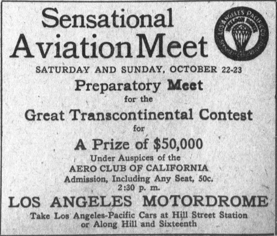 A newspaper advertisement from the Los Angeles Herald for an aviation meet at the Los Angeles Motordrome in October, 1910.